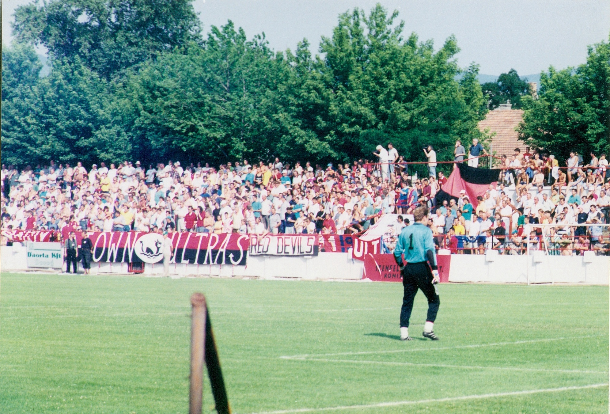 It happened in 3rd class in 1997. 10 thousand Dorog fans supported their team